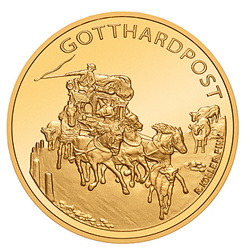 Swiss 50 Fr. gold coin commemorating "Gotthardpost", obverse